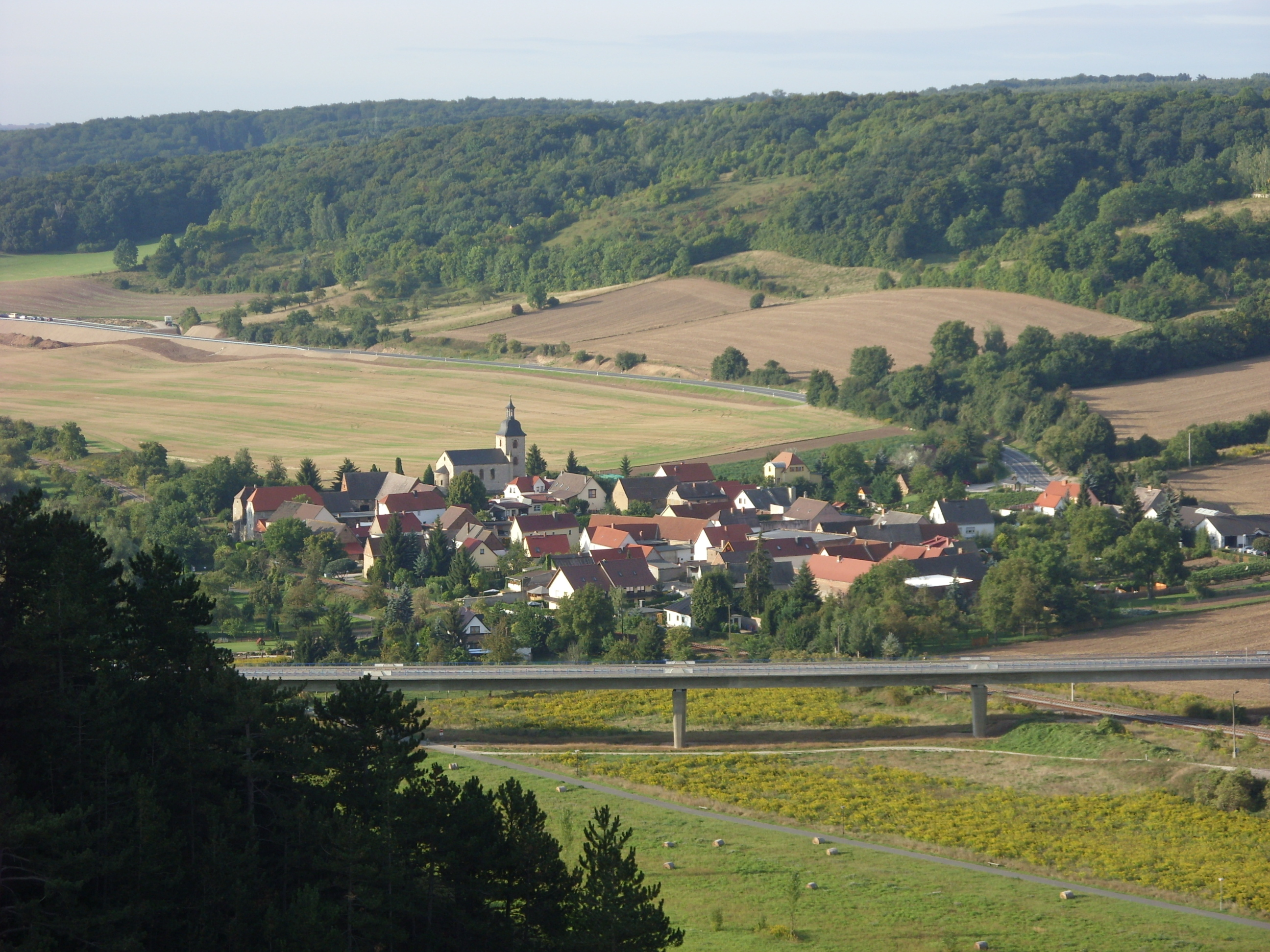 View over Nißmitz, Part of Freyburg, Saxony-Anhalt, Germany